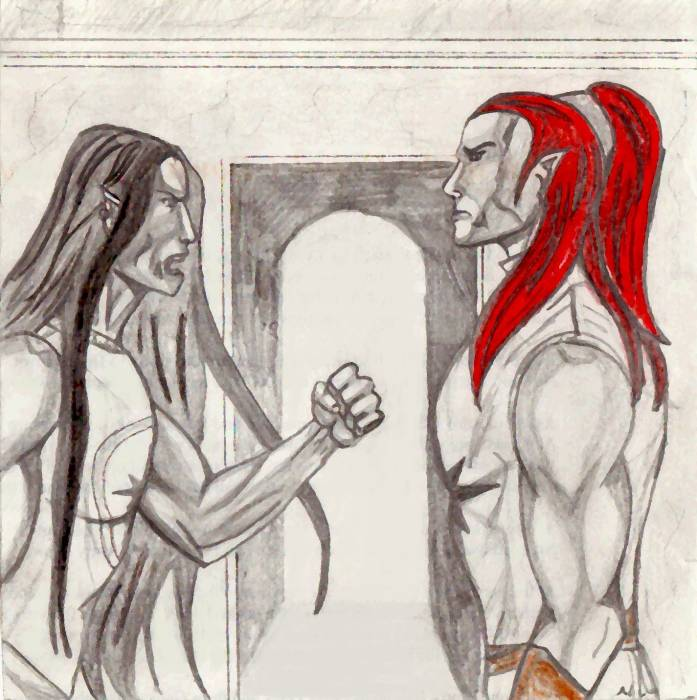 Though Maglor and Maedhros are brothers and spend most of there time together, ther is not always everything ok between them... just a little dicussion between them.